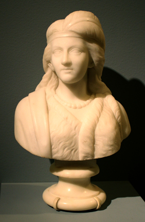 Work based on the Henry Wadsworth Longfellow poem, "Hiawatha."